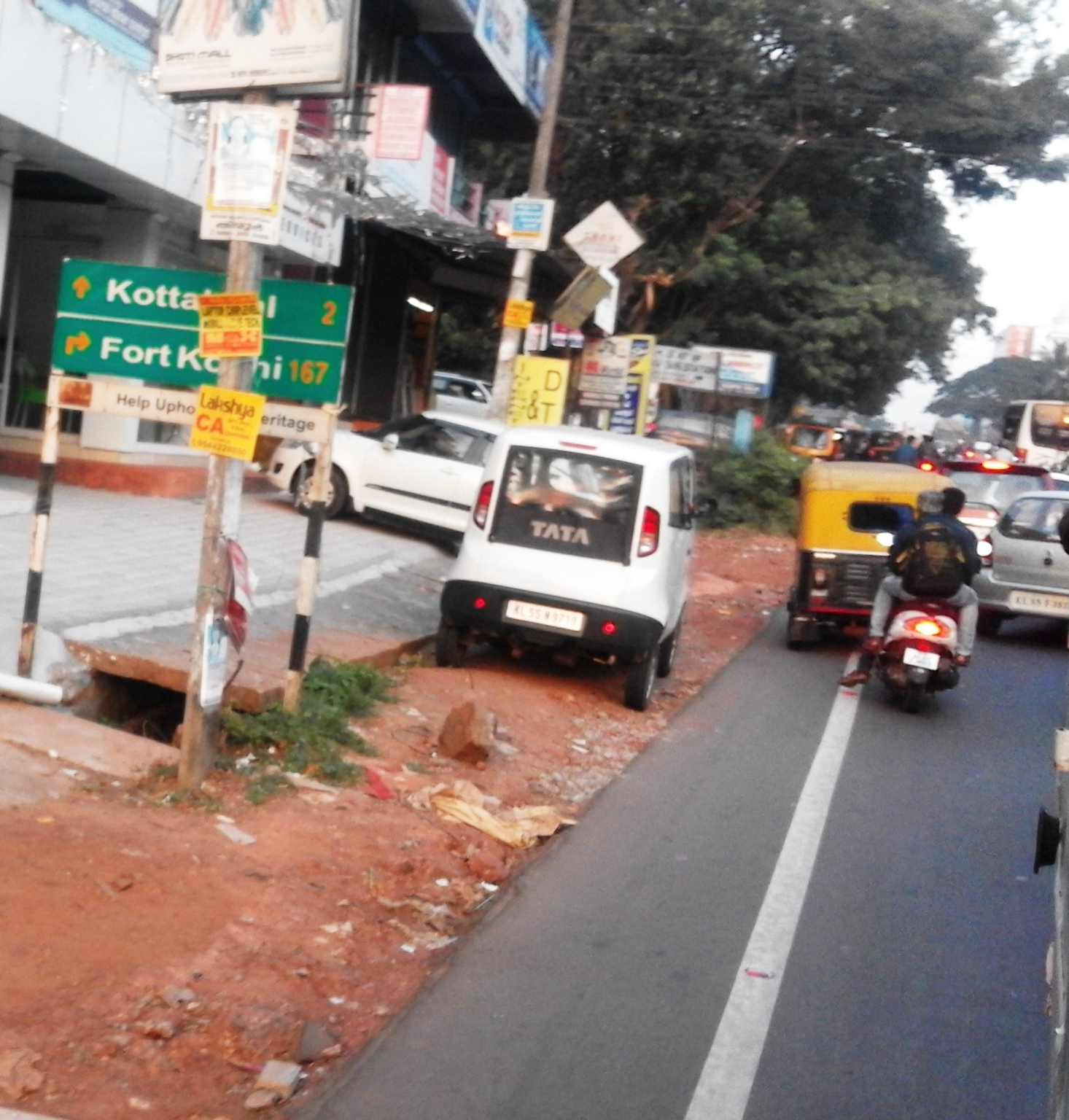 Edarikode, Kottakkal, Malappuram, India.